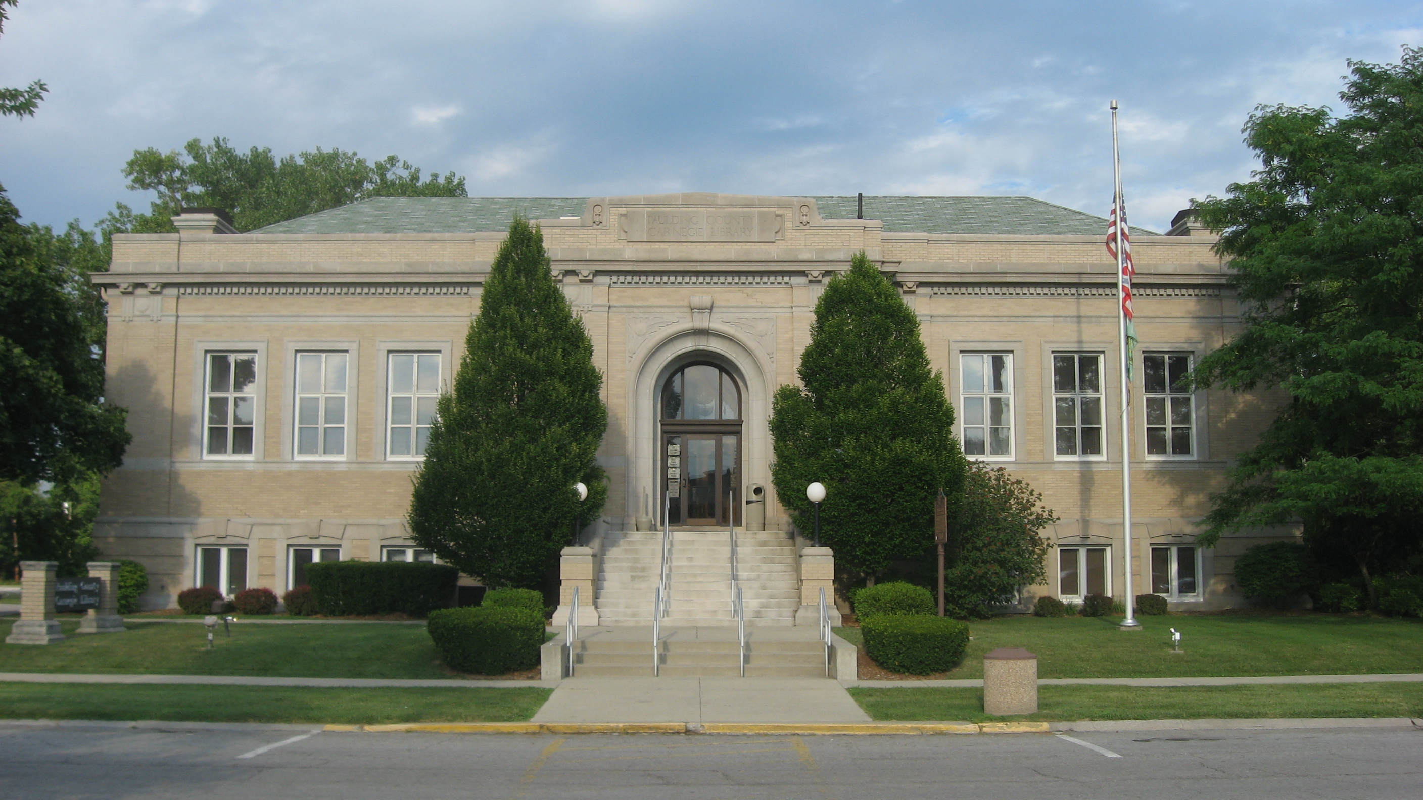 Front of the Paulding County Carnegie Library, located at 205 S. Main Street in Paulding, Ohio, United States. Built in 1912, it is listed on the National Register of Historic Places.